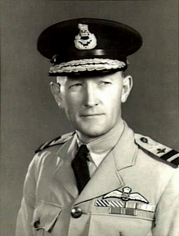 Air Commodore Henry Wrigley, RAAF.